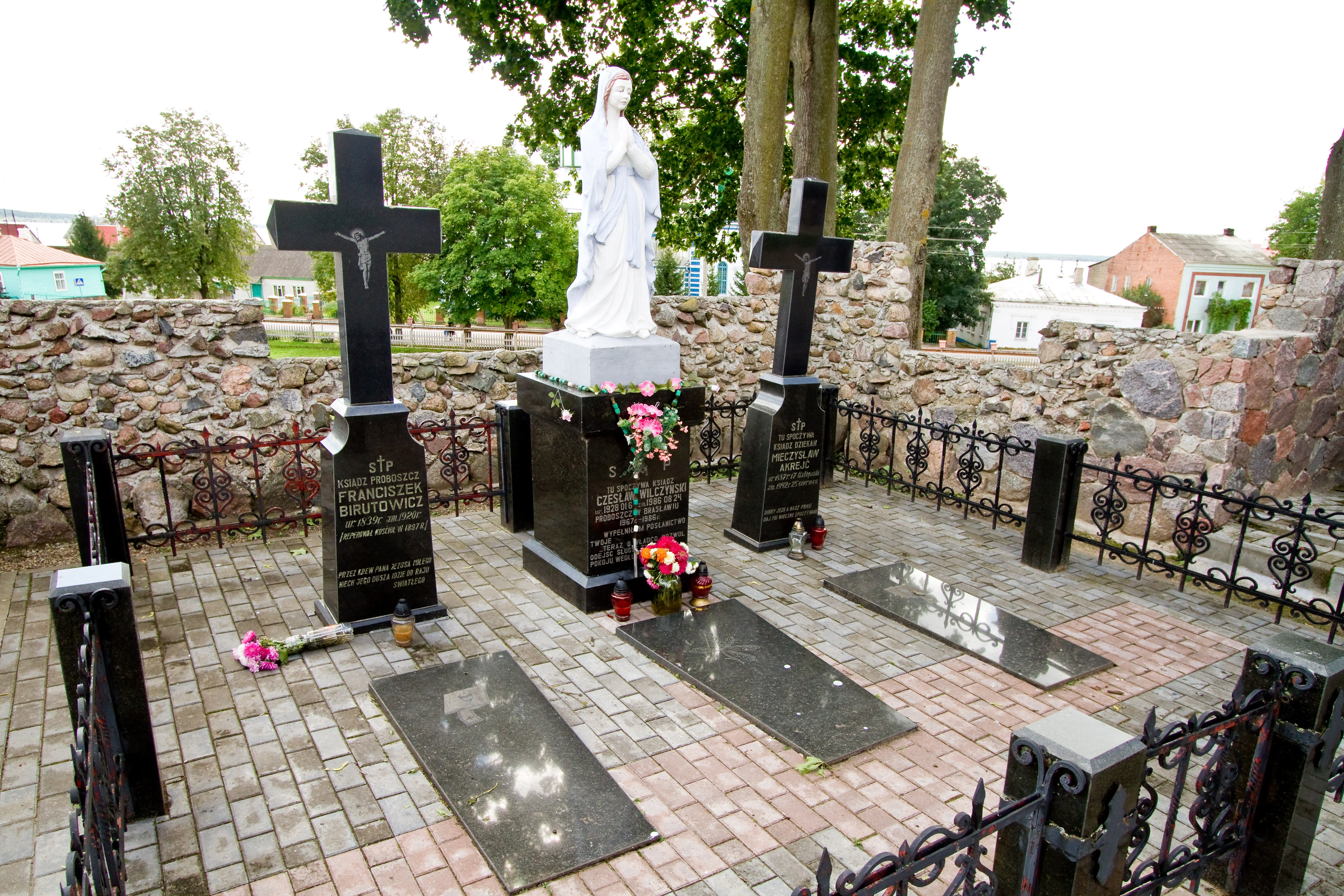 Burial place near the catholic church of Virgin Mary, Brasłaŭ. Viciebsk province, Belarus.